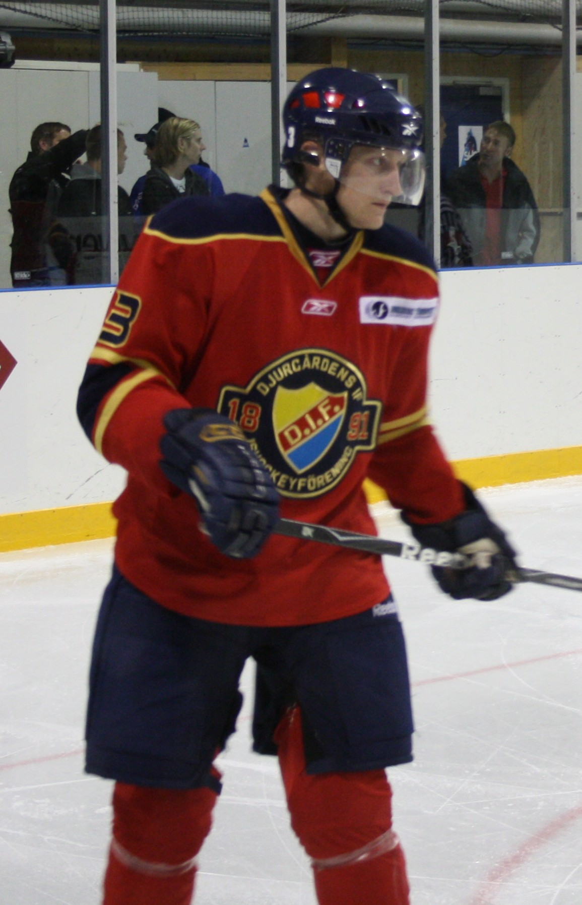 Swedish professional ice hockey player David Printz during a pre-season against Malmö Redhawks.